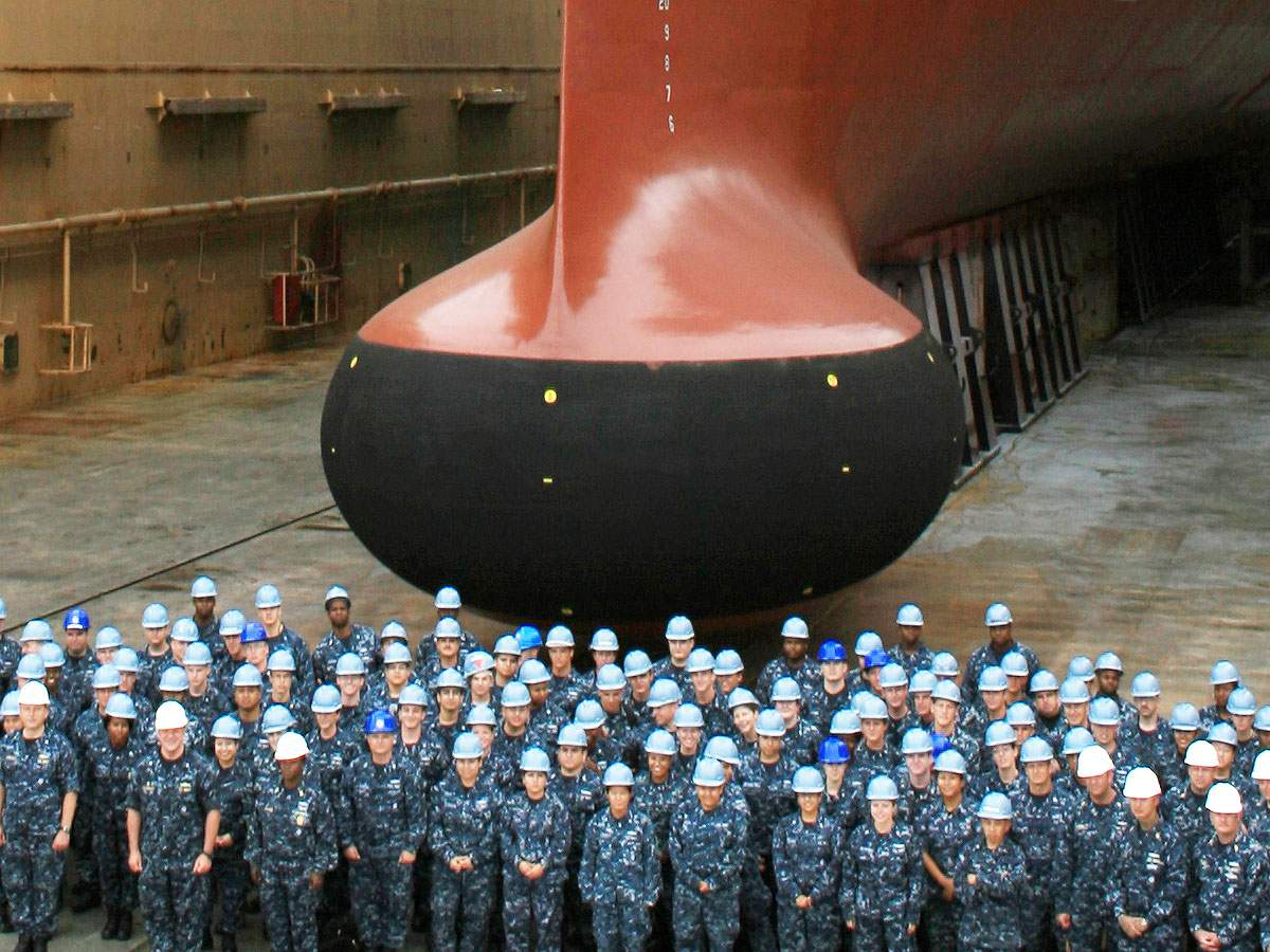 100907-N-0121W-001 SAN DIEGO (Sept. 7, 2010) Sailors assigned to the guided-missile destroyer USS John Paul Jones (DDG 53) stand in front of the ship during its last day in dry dock. John Paul Jones was the first destroyer to undergo modernization, receiving the hull mechanical & electrical portions of the upgrade. (U.S. Navy photo by Electronics Technician 2nd Class William Weinrich/Released)